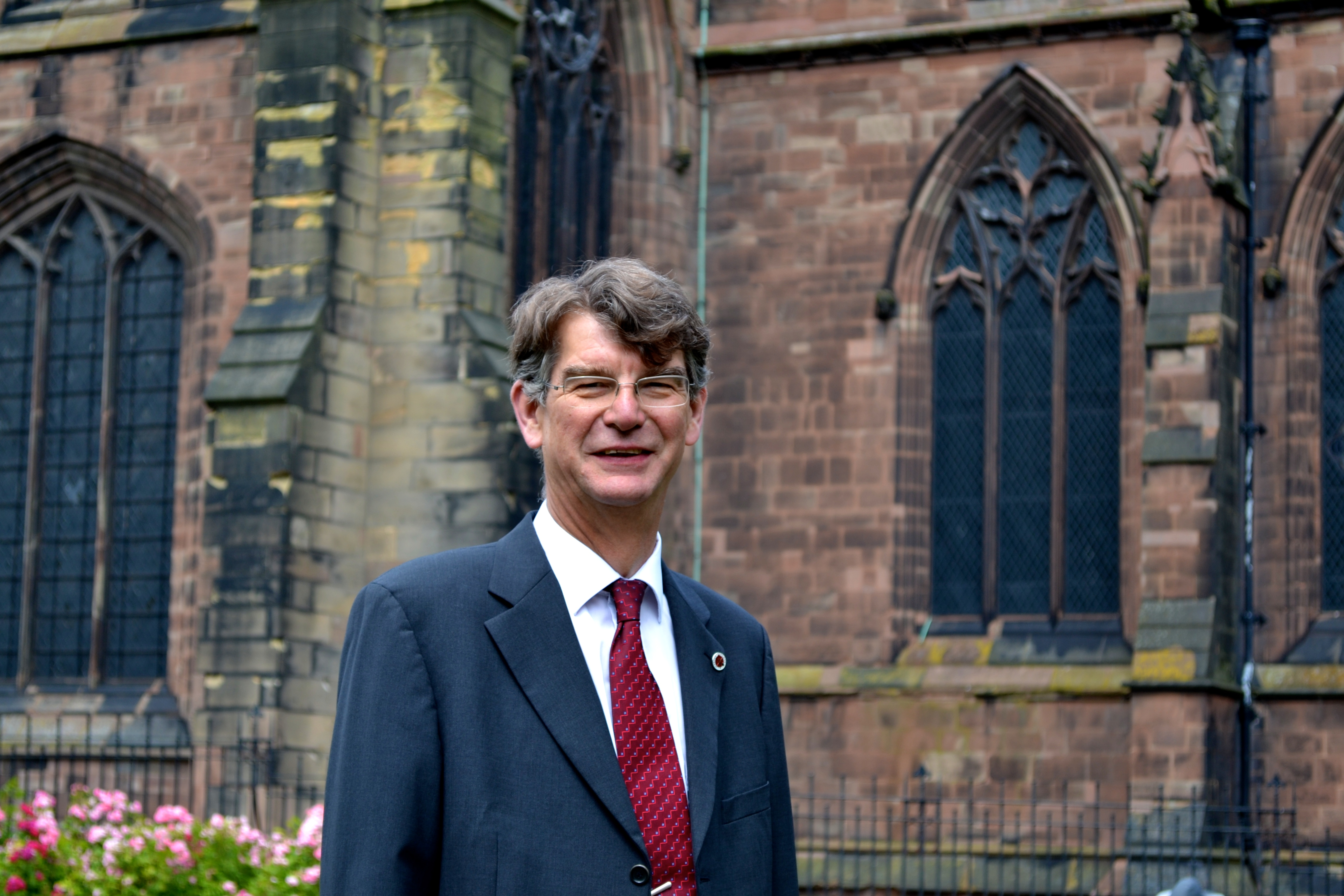 Picture of Rob Marris